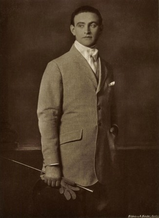 Portrait of German actor Ludwig Trautmann (1885–1957) by Alexander Binder.